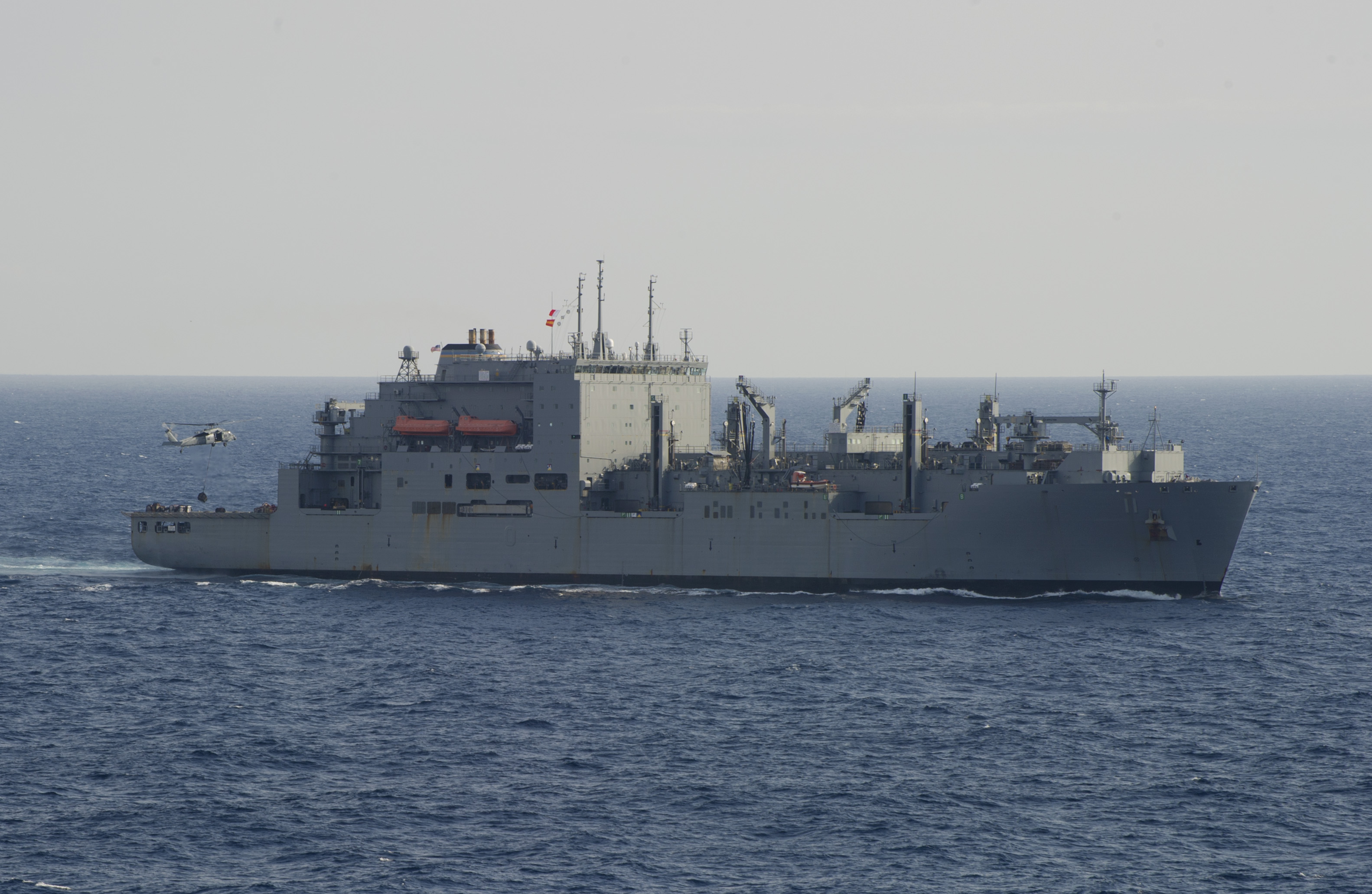 The U.S. Military Sealift Command dry cargo and ammunition ship USNS Washington Chambers (T-AKE-11) transits near the amphibious assault ship USS Peleliu (LHA-5), not shown, while conducting a vertical replenishment in the Philippine Sea while underway to participate in "Amphibious Landing Exercise 2015". The annual bilateral training exercise is conducted by the Armed Forces of the Philippines, U.S. Marines and Navy to strengthen interoperability across a range of capabilities to include disaster relief and contingency operations.